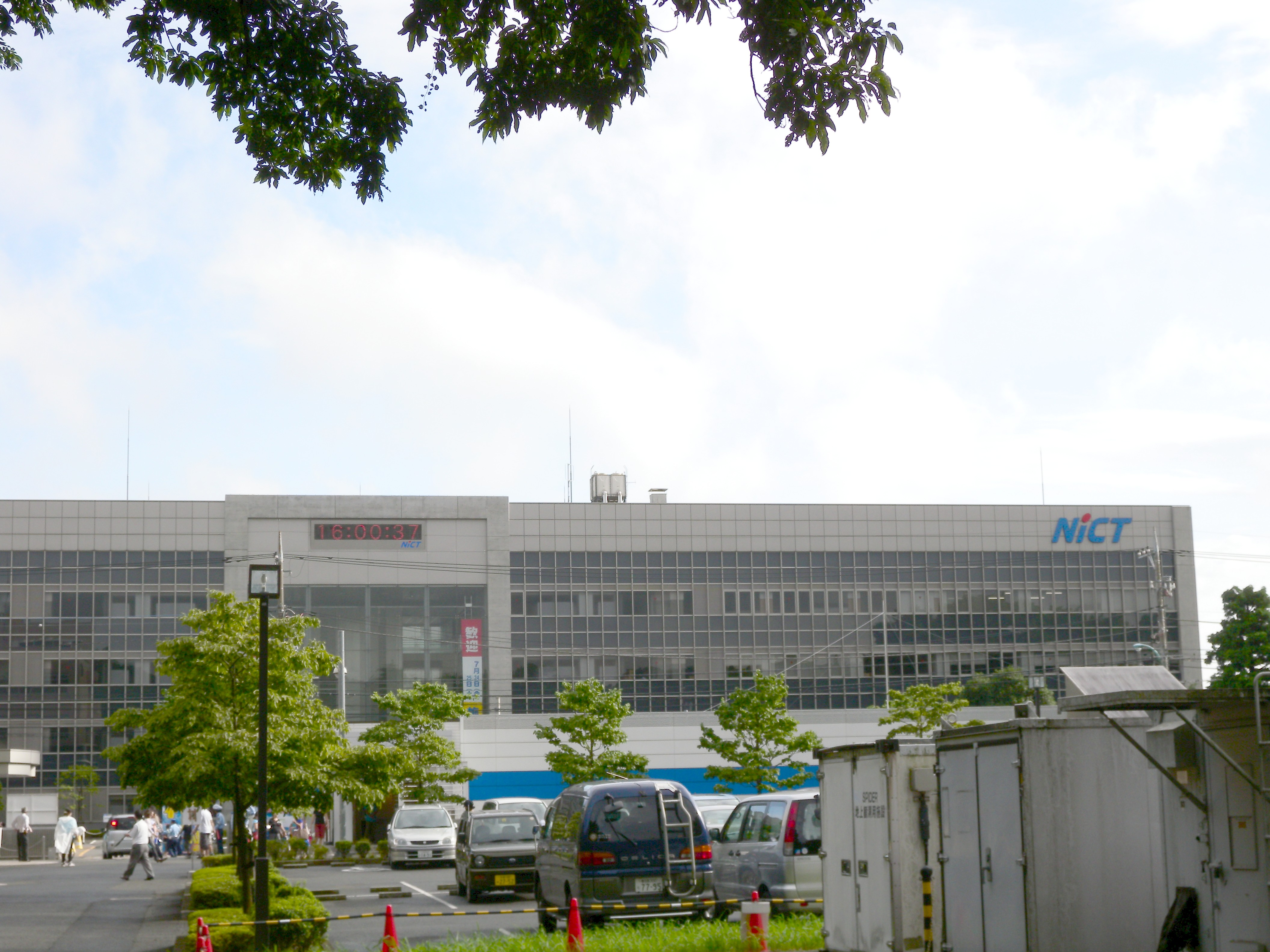 NICT(National Institute of Information and Communications Technology), Koganei-city, Tokyo, Japan. 情報通信研究機構。